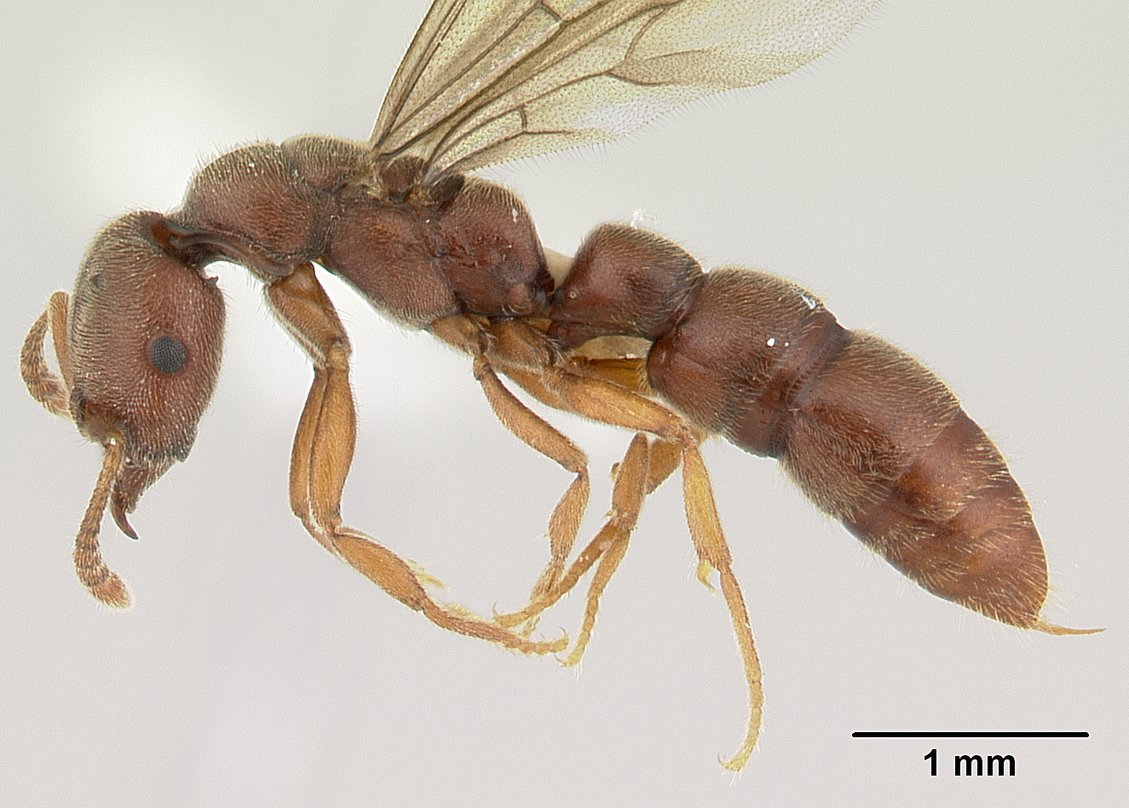 Profile view of ant Amblyopone saundersi specimen casent0178862.